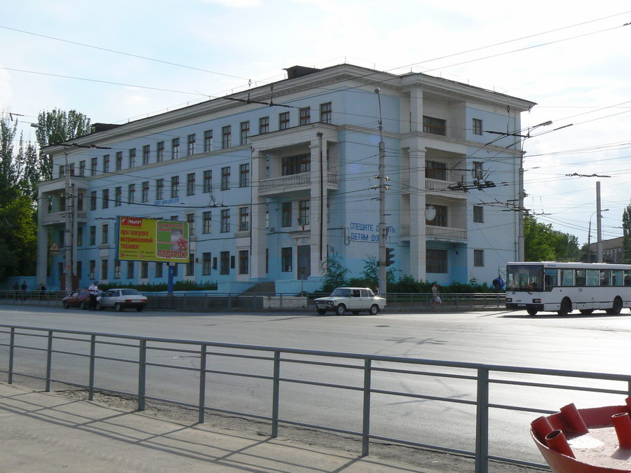 Building of former 3rd school in Traktorozavodskiy district of Volgograd